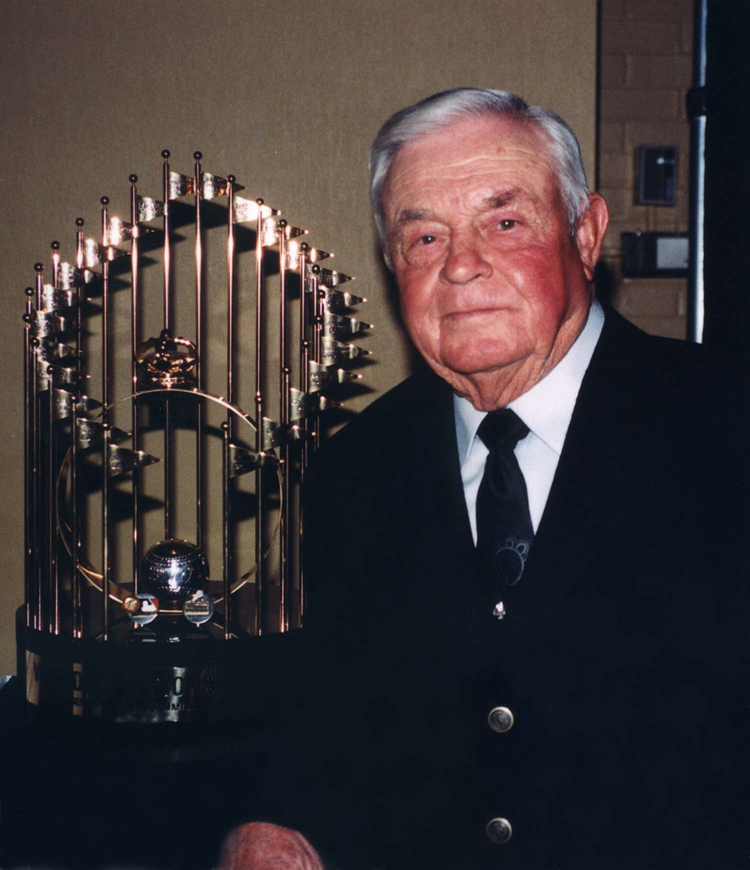 Earl Weaver Baseball manager with 1970 world series trophy Oct. 25, 2000 Baltimore M.D. © copyright John Mathew Smith 2001